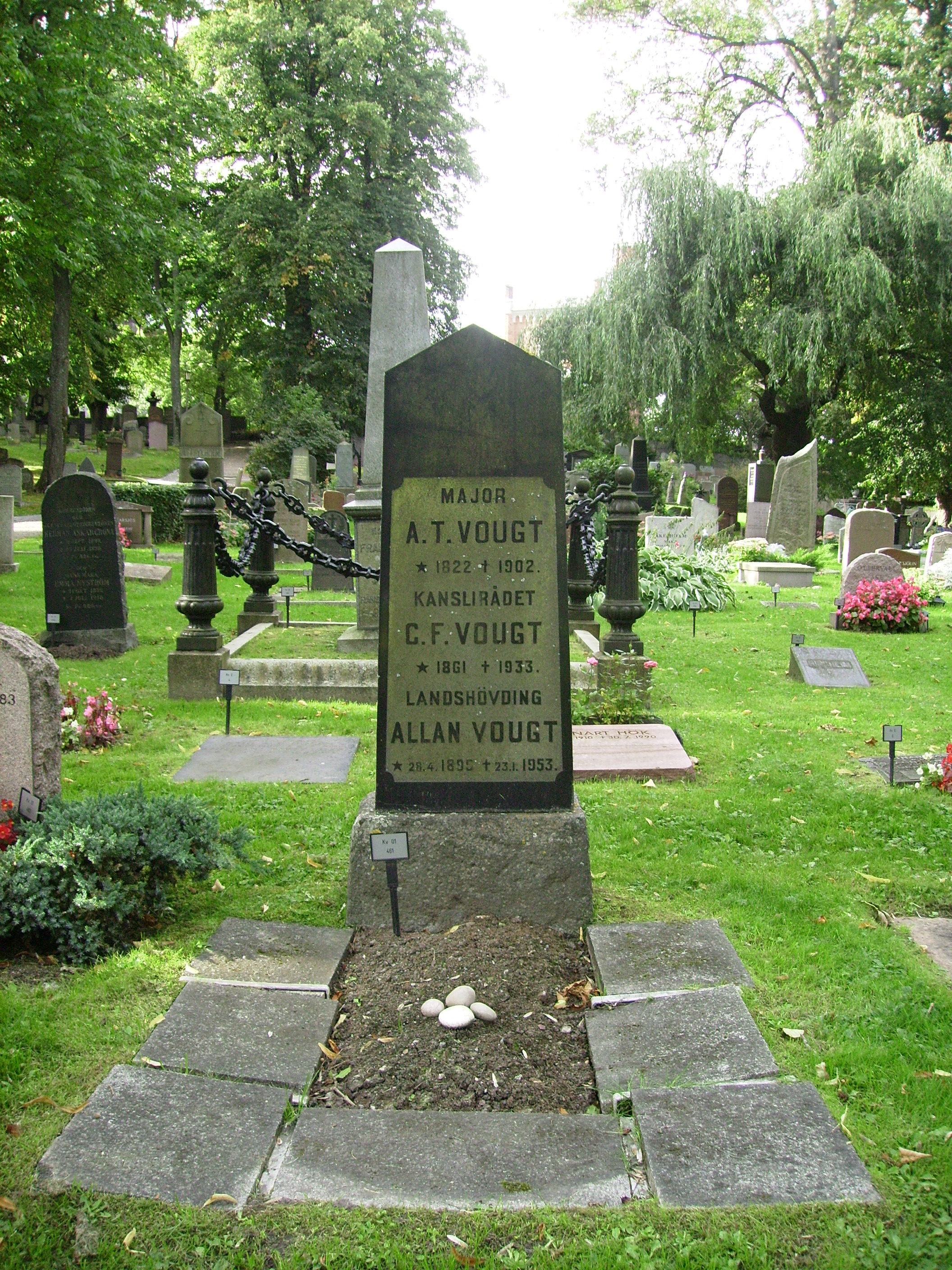 Picture of Allan Vougt's grave at Galärvarvskyrkogården in Stockholm